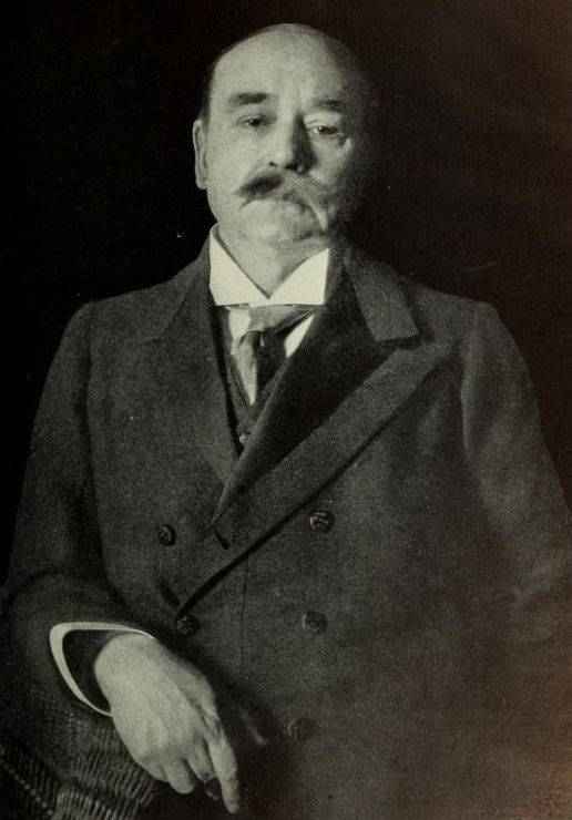 Portrait of William Hurrell Mallock